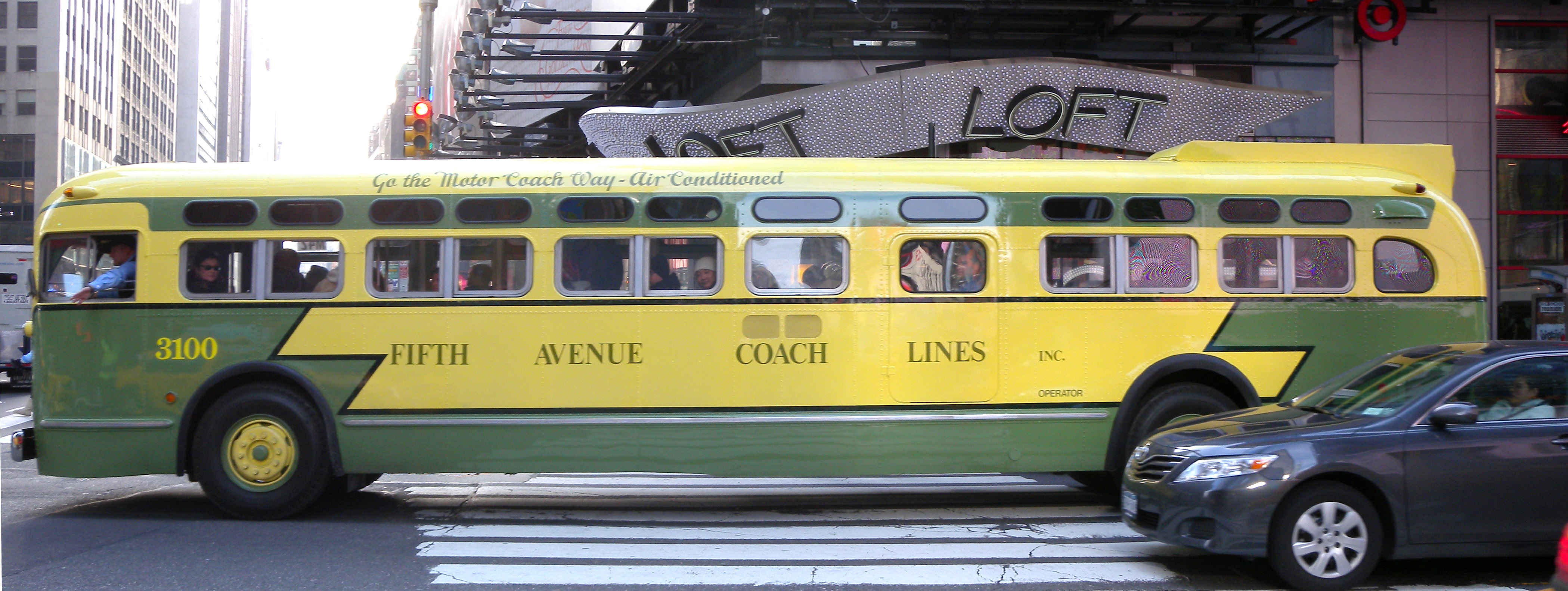 Looking south across 42nd Street as Bus 3100, formerly Fifth Avenue Coach Line, crosses Broadway.